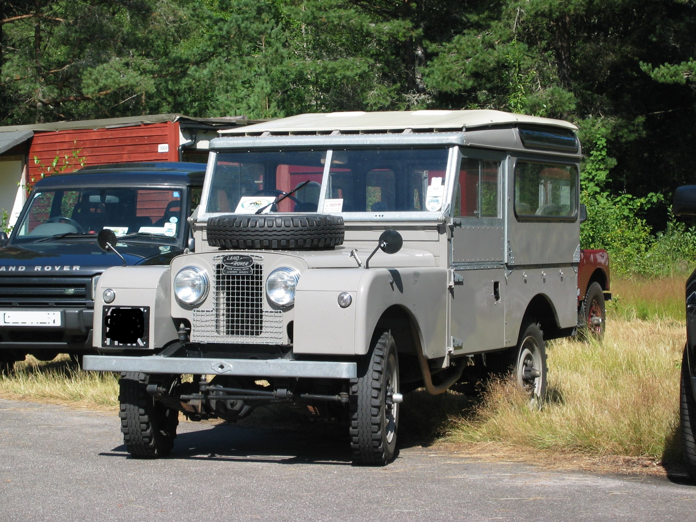 Land Rover Series I hardtop during the Norwegian Land-Rover Club's 30th anniversary in Evje, Norway.